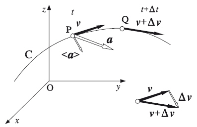 Definición de aceleración